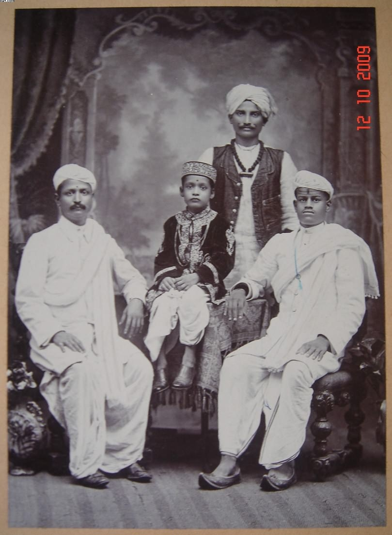 Vintage studio photograph of Marwari traders, Bombay